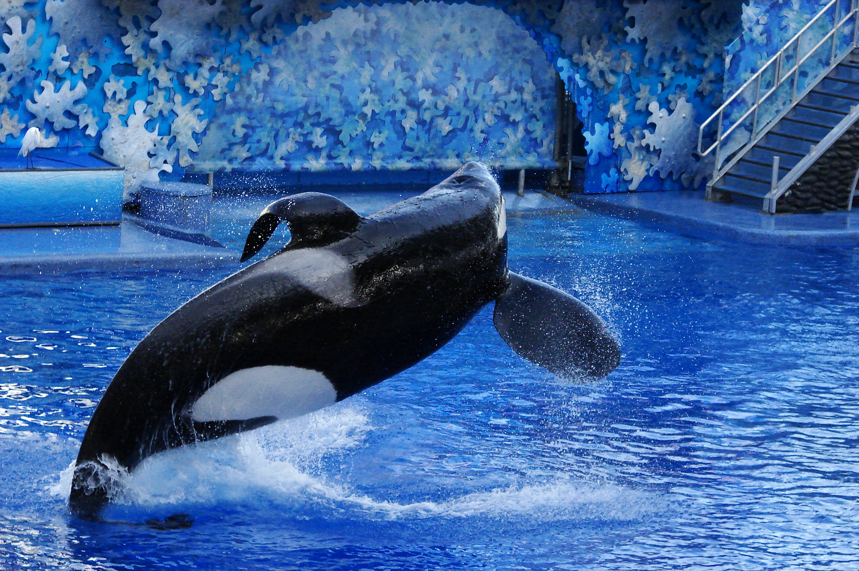 Killer whale Tilikum during a Shamu performance at SeaWorld Orlando.